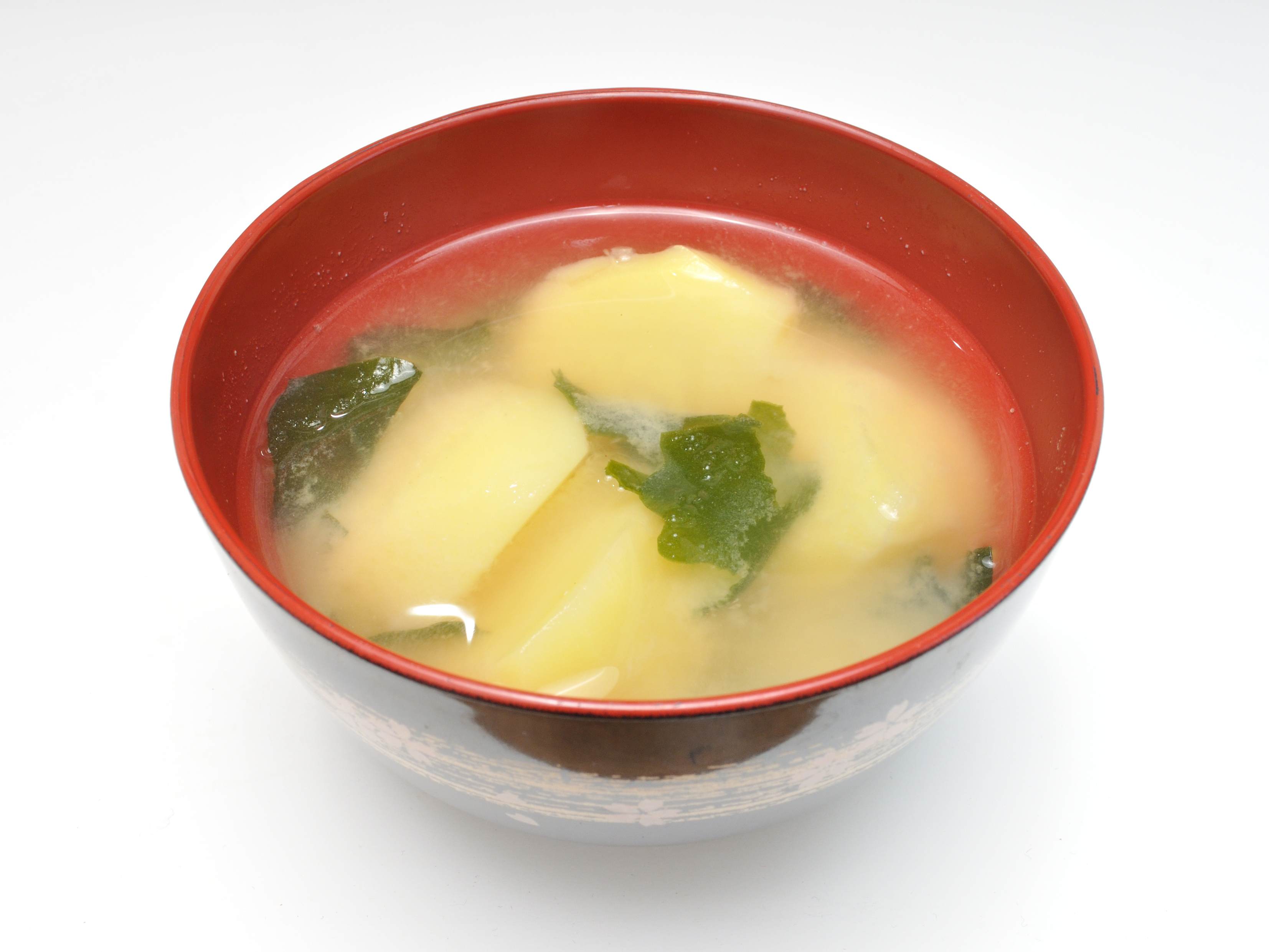 Potato and seaweed miso soup